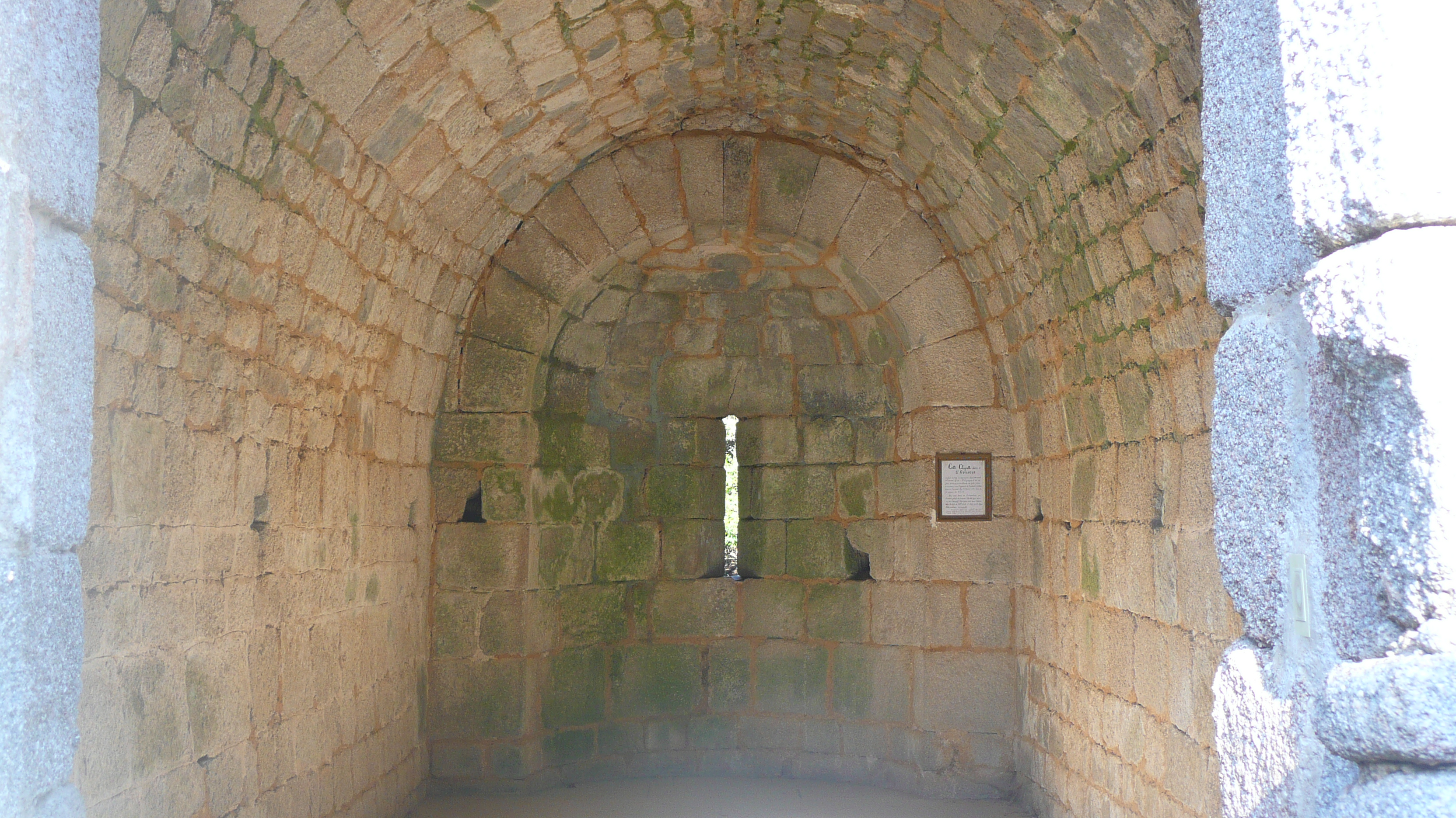 Chapel San Quilico de Montilati, Corsica